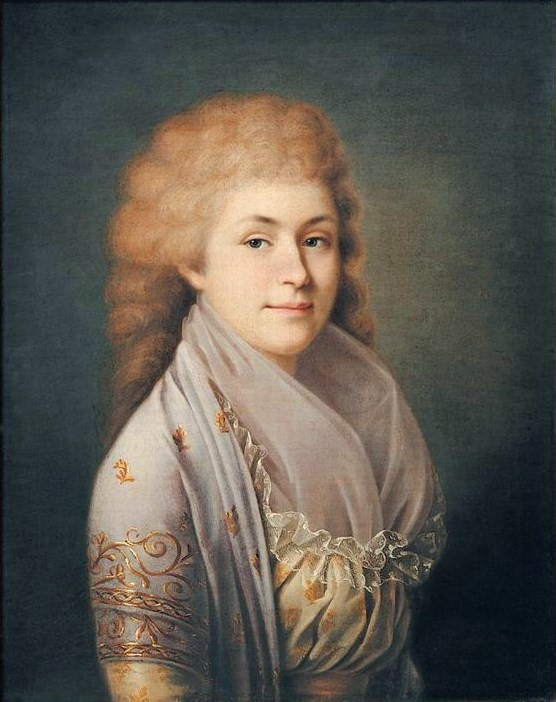 Portrait of Natalia Gribovskaya